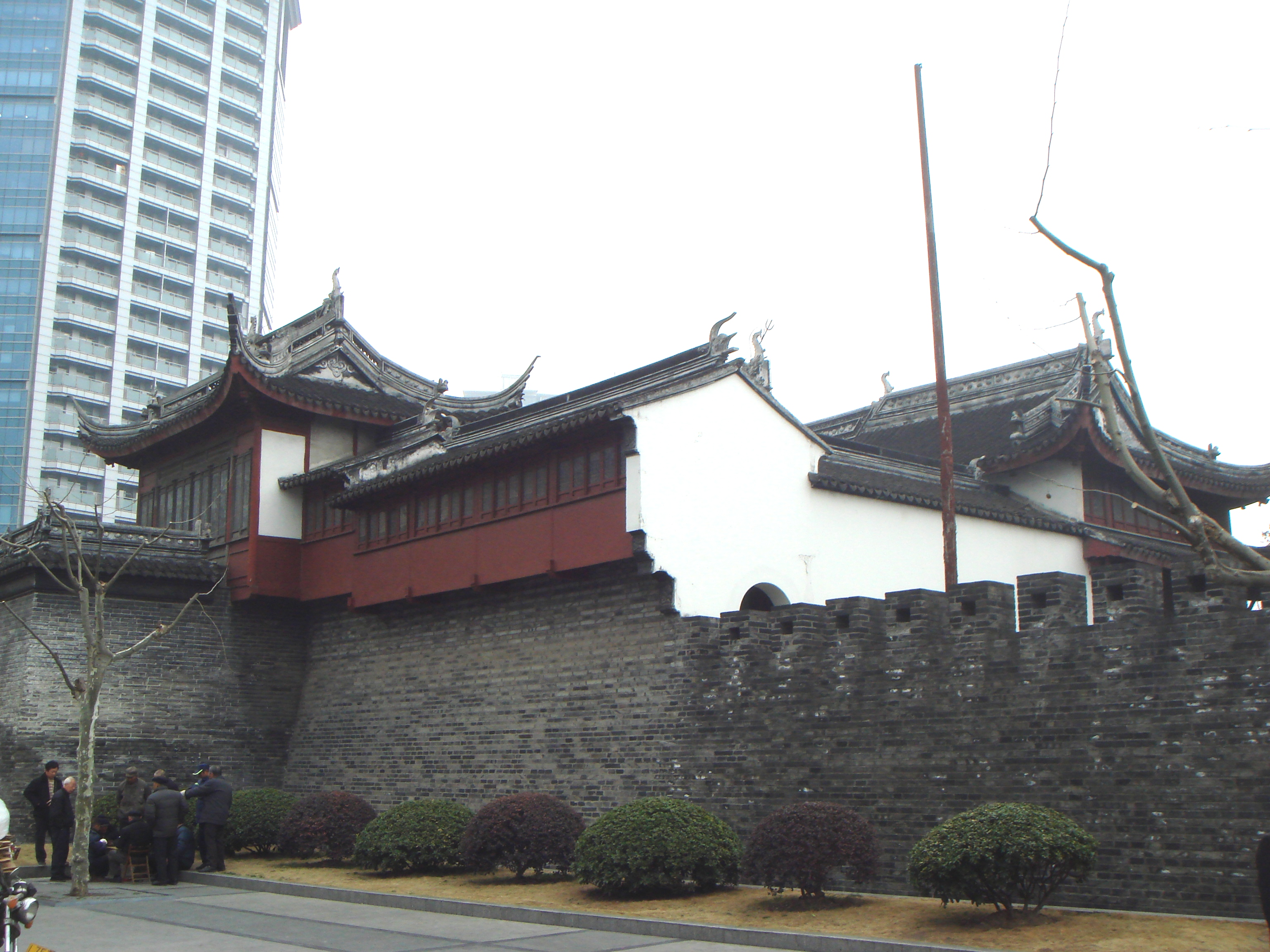 Dajing_Ge_Pavillion Shanghai